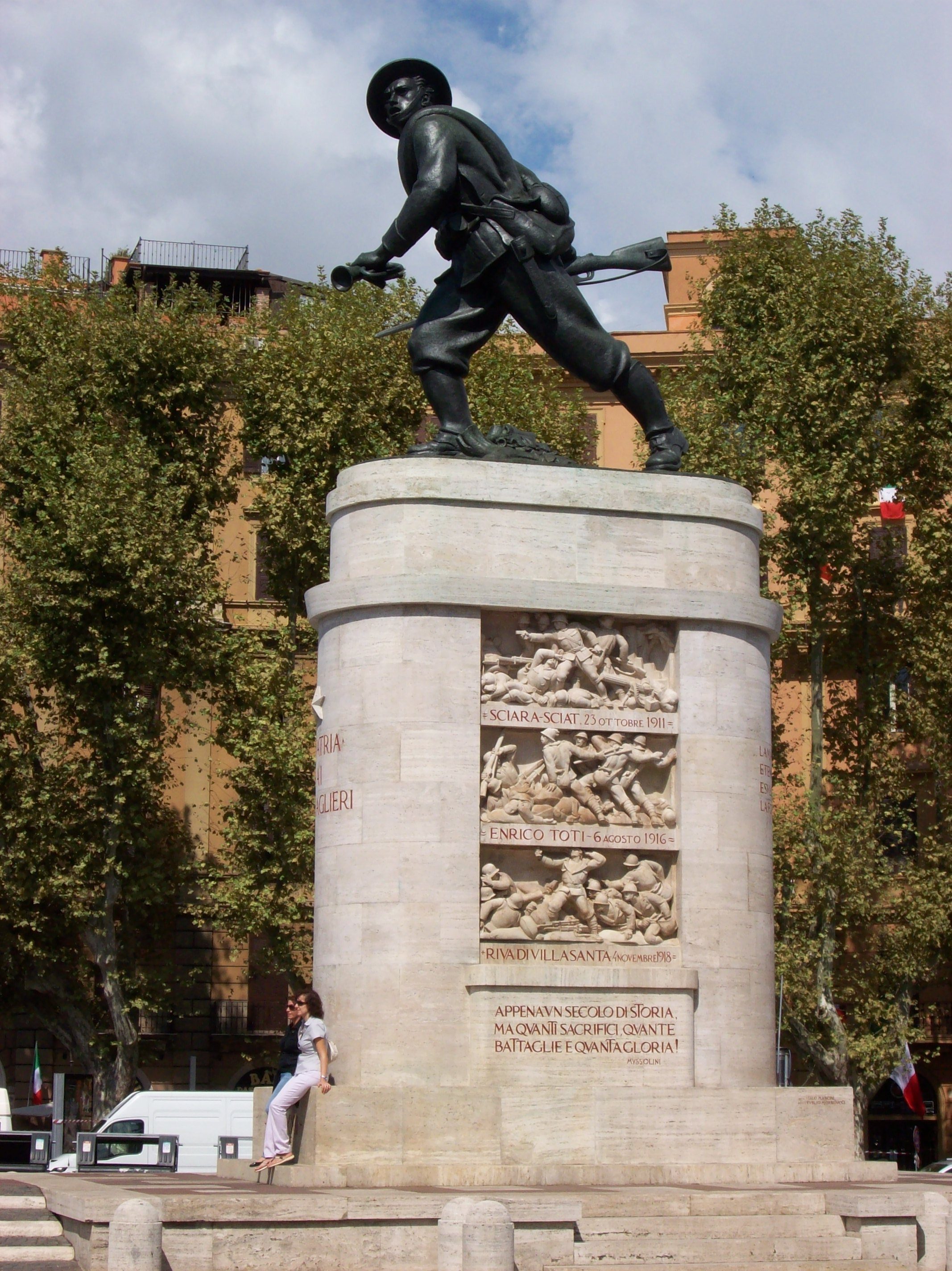 Monument to the Bersagliere in Rome, in front of Porta Pia